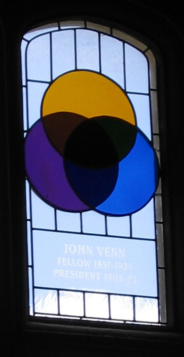 Stained glass window by Maria McClafferty in the dining hall of Gonville and Caius College, in Cambridge (UK), commemorating John Venn, who invented the concept of Venn diagram and was a fellow of the college. The text on the windows reads: JOHN VENN; FELLOW 1857–1923; PRESIDENT 1903–1923.